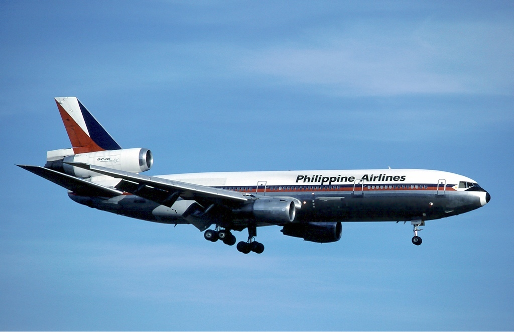 Philippine Airlines McDonnell Douglas DC-10-30